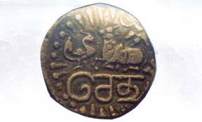 Setu coin